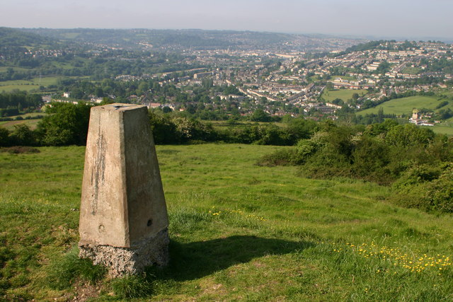 Solsbury Hill trig. Looking down over Bath